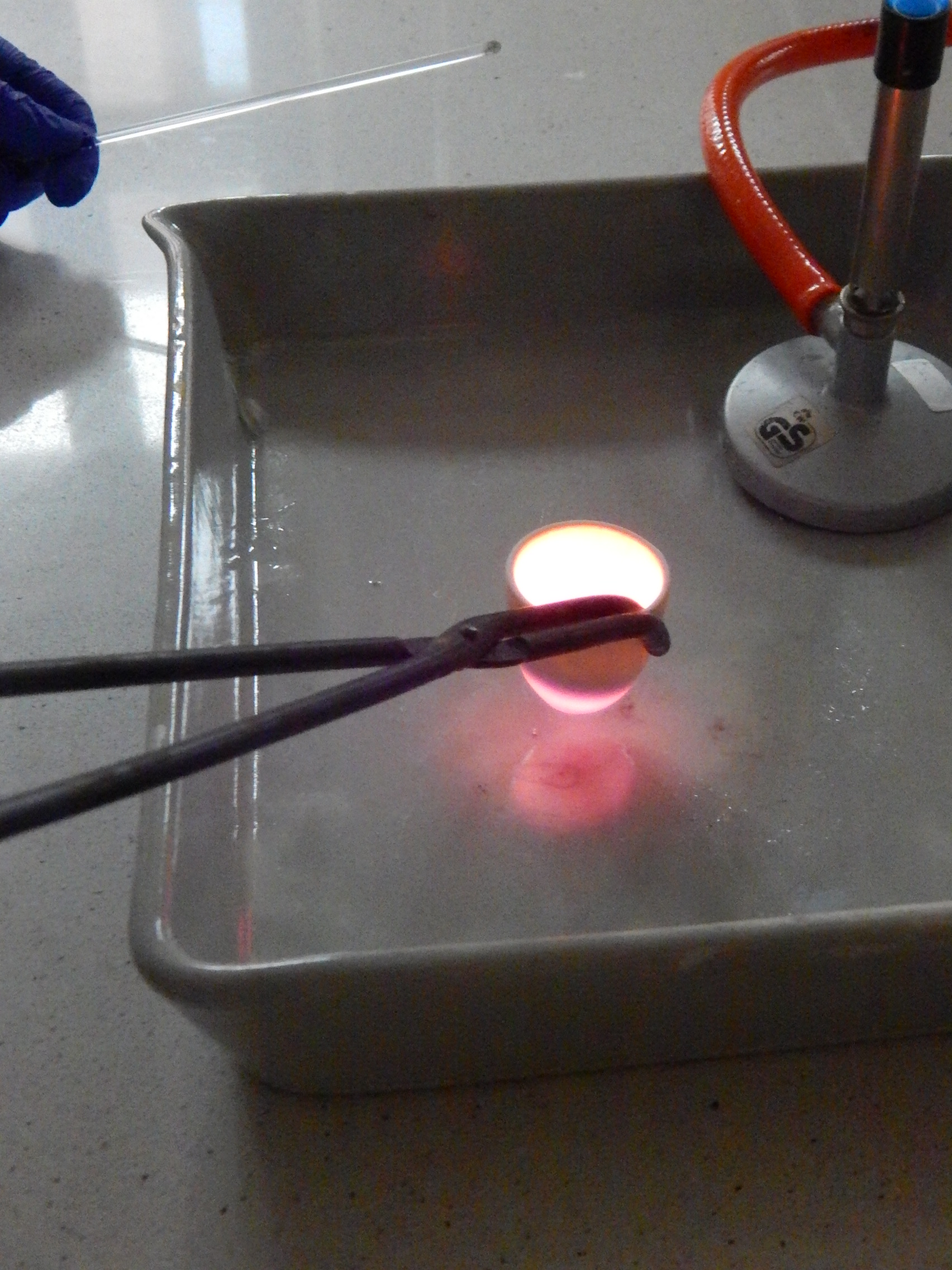 The combustion of magnesium in air is highly energetic. Released bright light is so intense that can dazzle. But when the reaction is controlled, the effect looks like getting pure chemical energy.